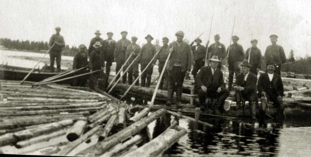 Timber rafting in 1930's in Piehinki, Saloinen, near Raahe, Finland